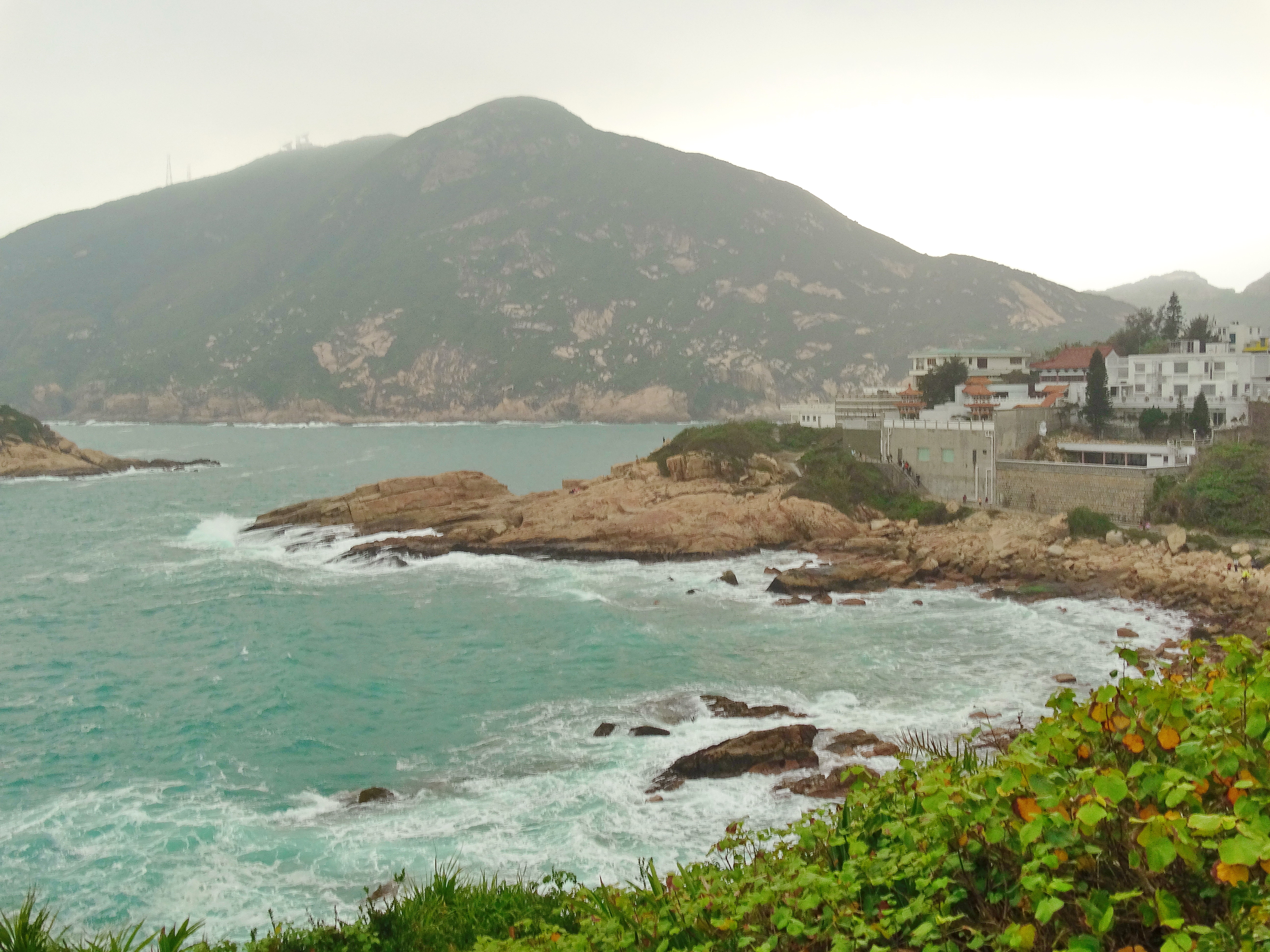 Shek O Headland viewed from Tai Tau Chau, Hong Kong.